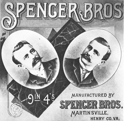 Label from Spencer Brothers tobacco label, Martinsville, Henry County, Virginia, circa 1880